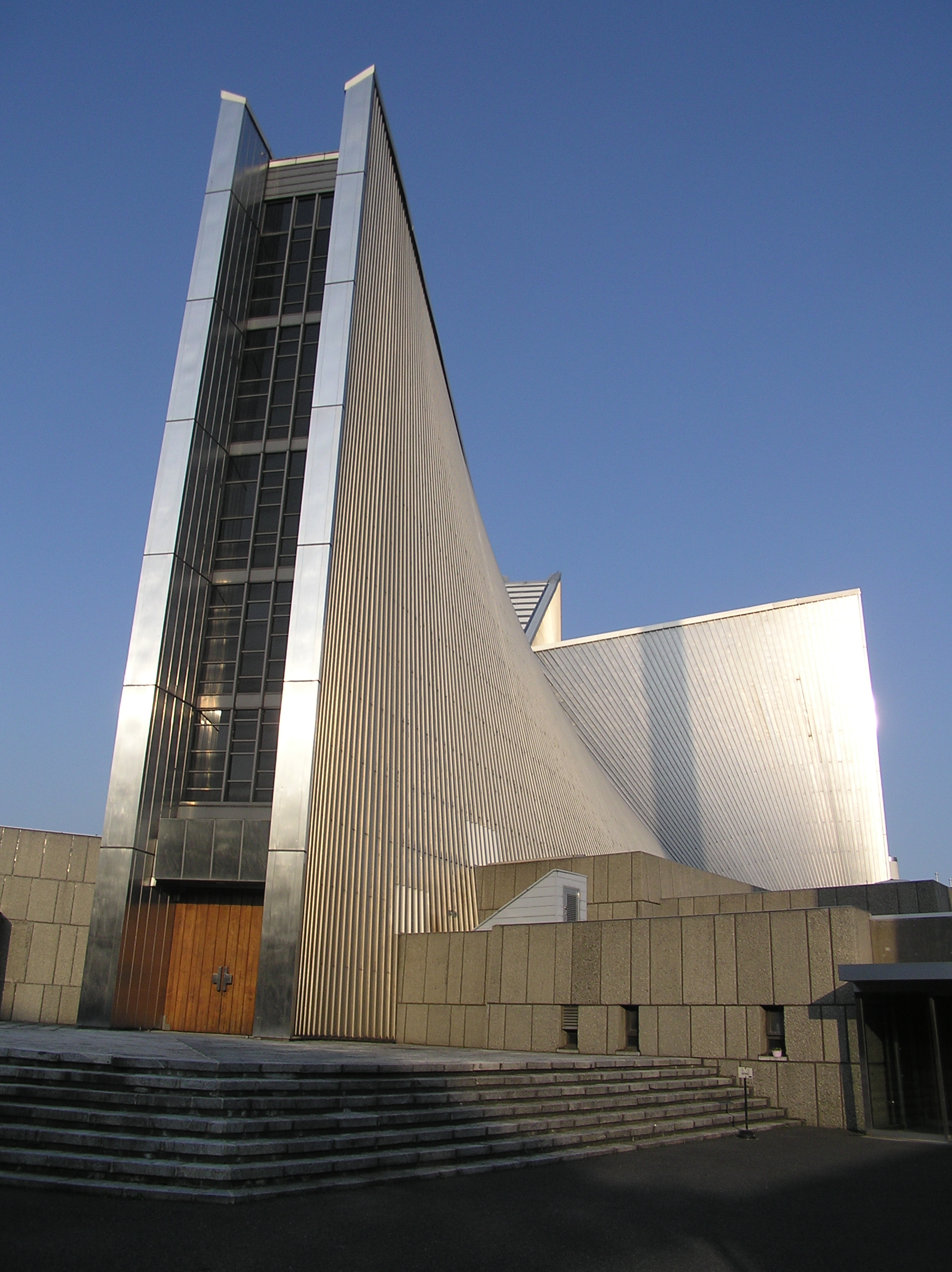 Tokyo Cathedrale(St. Mary's Cathedral). A work by Tange Kenzo.